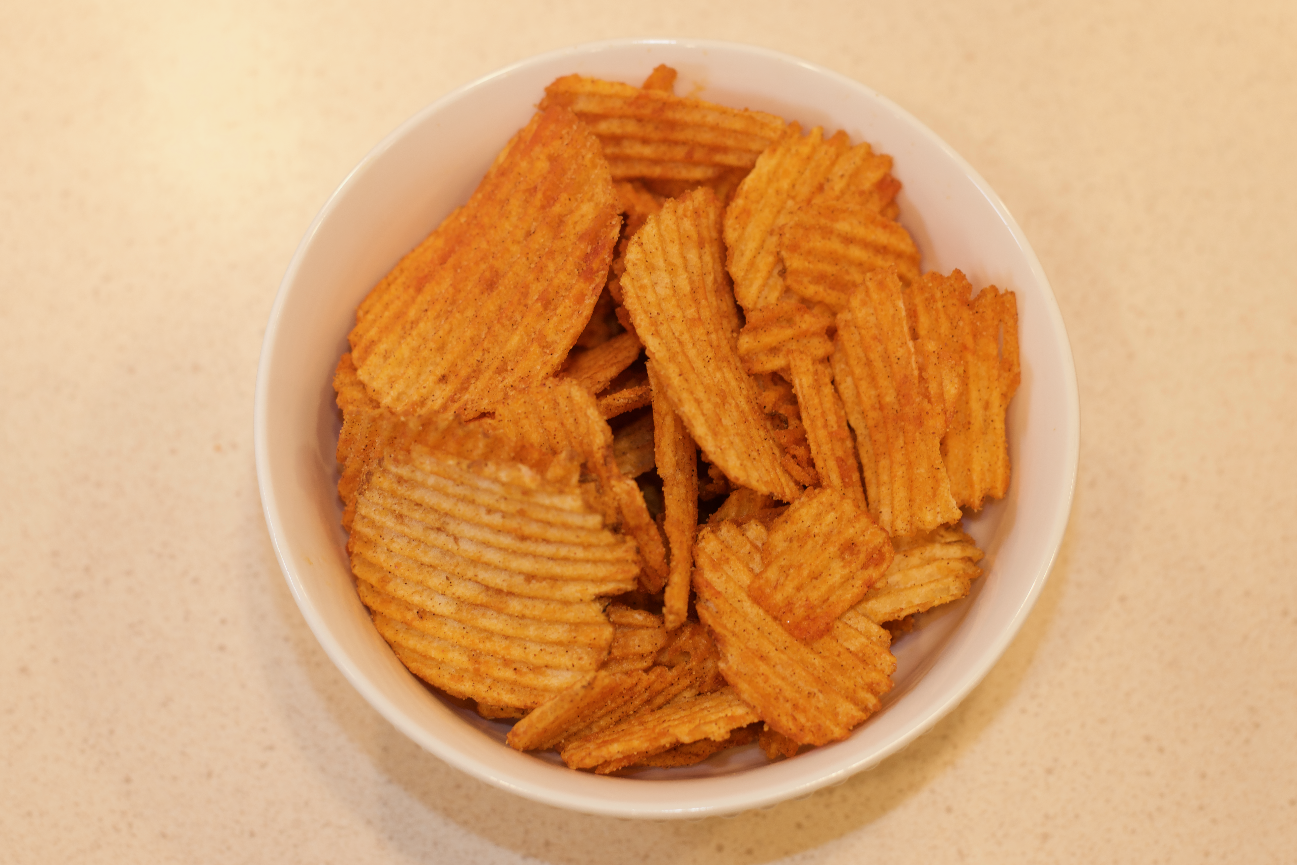 A bowl of Red Hot Riplets a popular snack food from St. Louis, Missouri